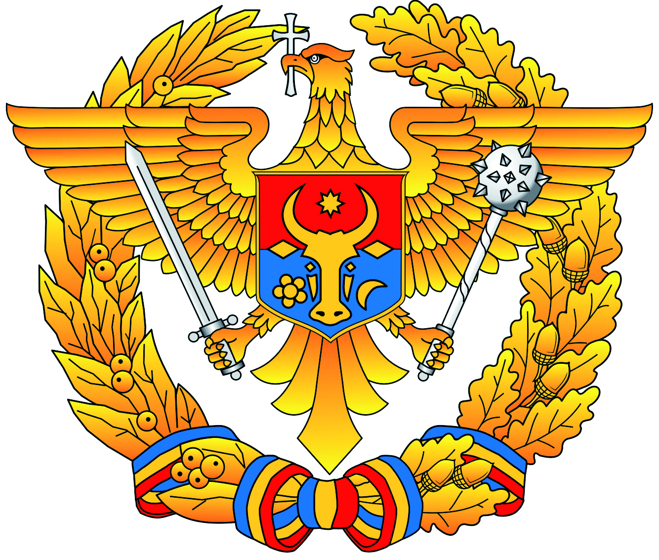 Official emblem of Armed Forces of Moldova